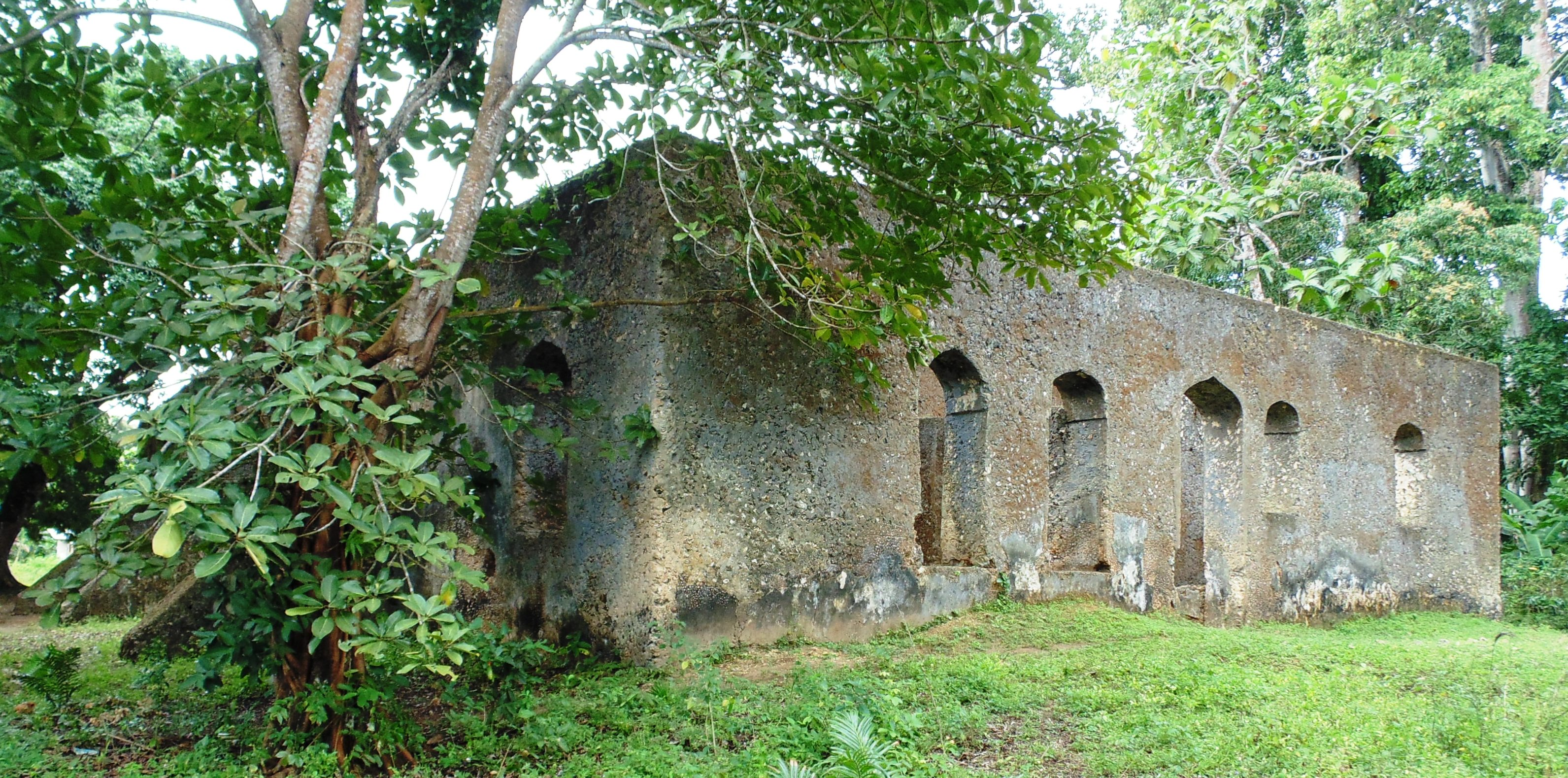 Ruins of the Dunga Palace